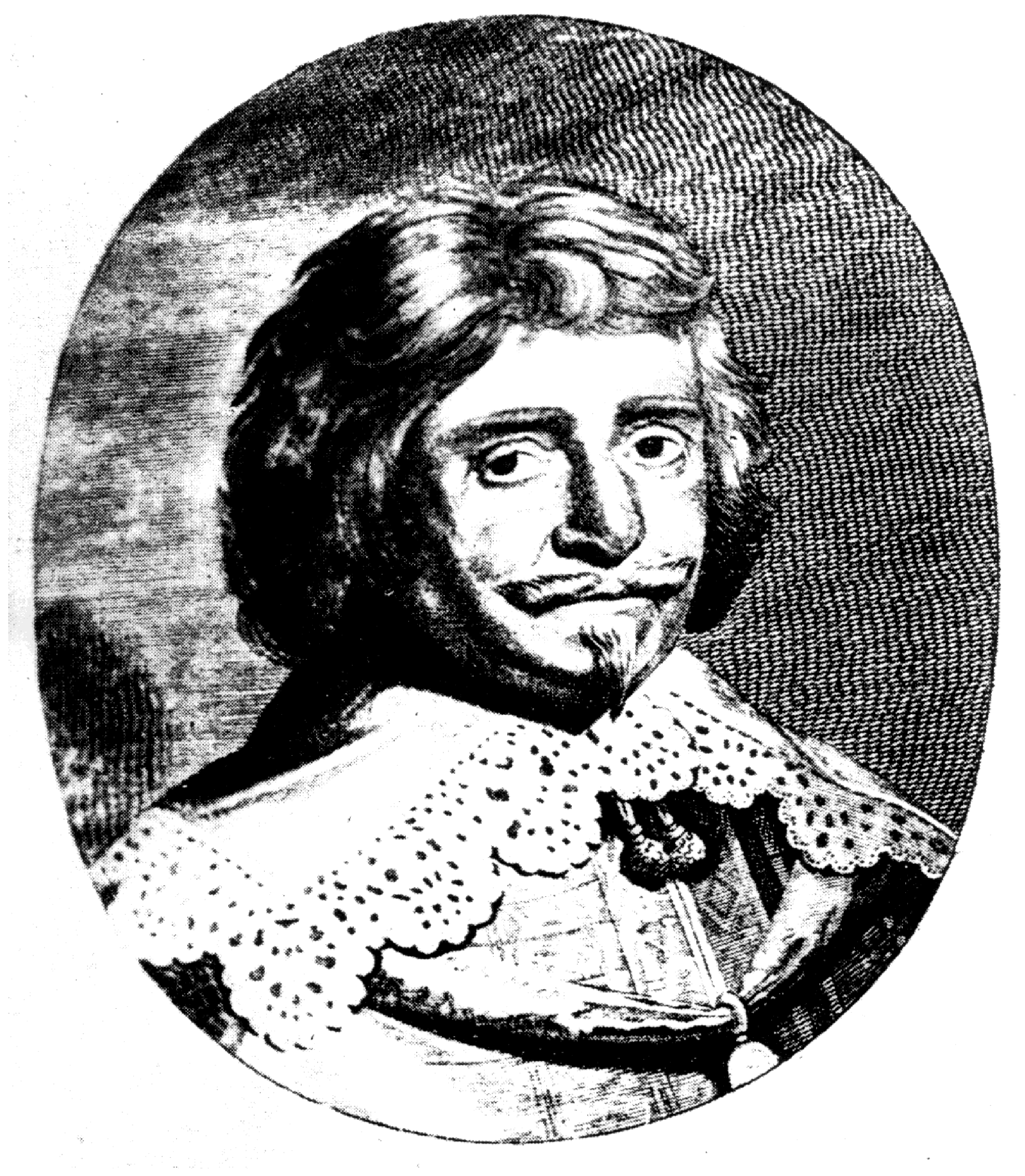 Angelo Sala